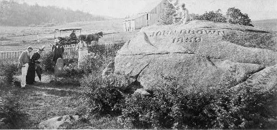 John Brown's grave and the "Big Rock," North Elba.